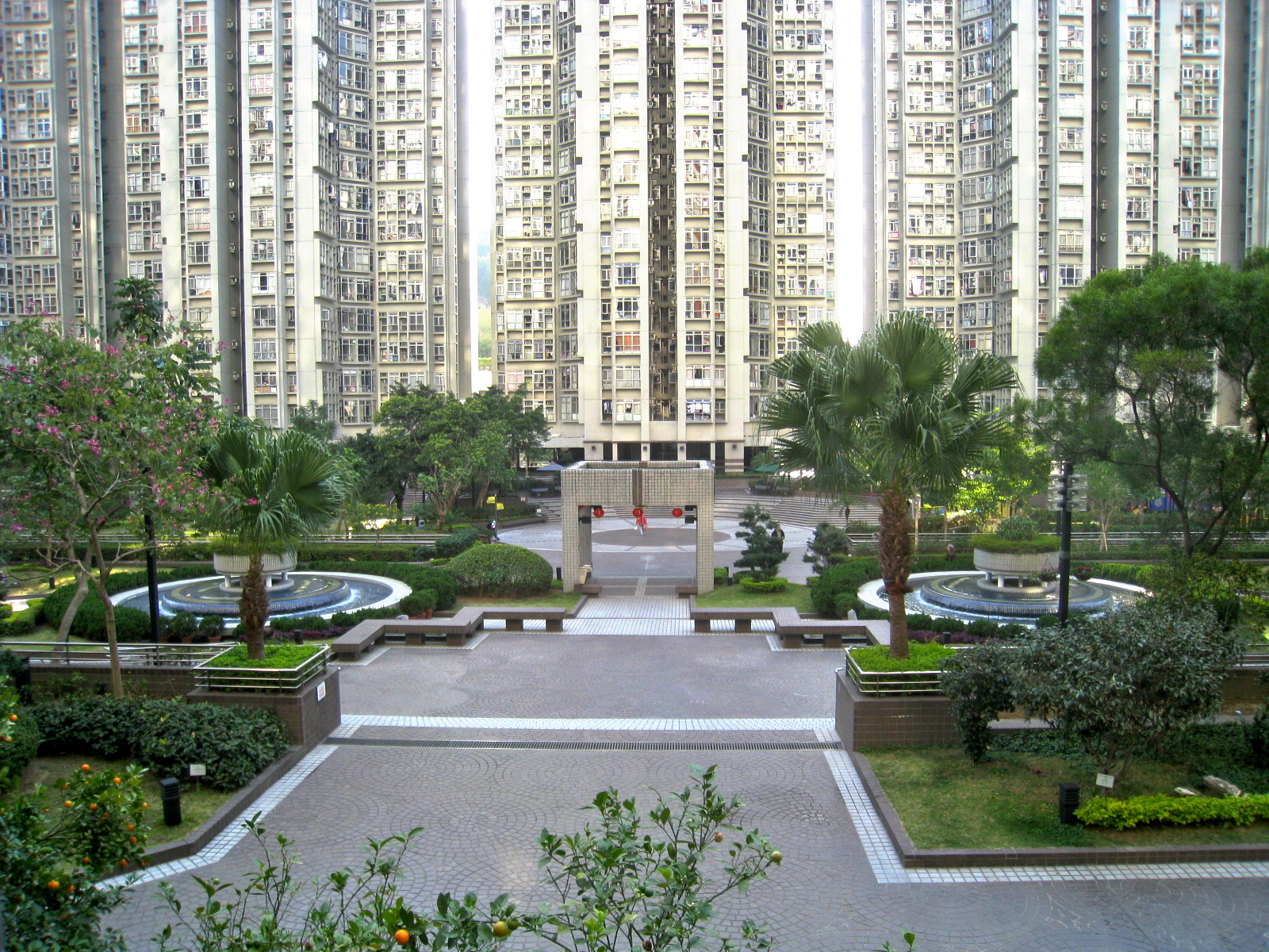 Sceneway Garden 滙景花園